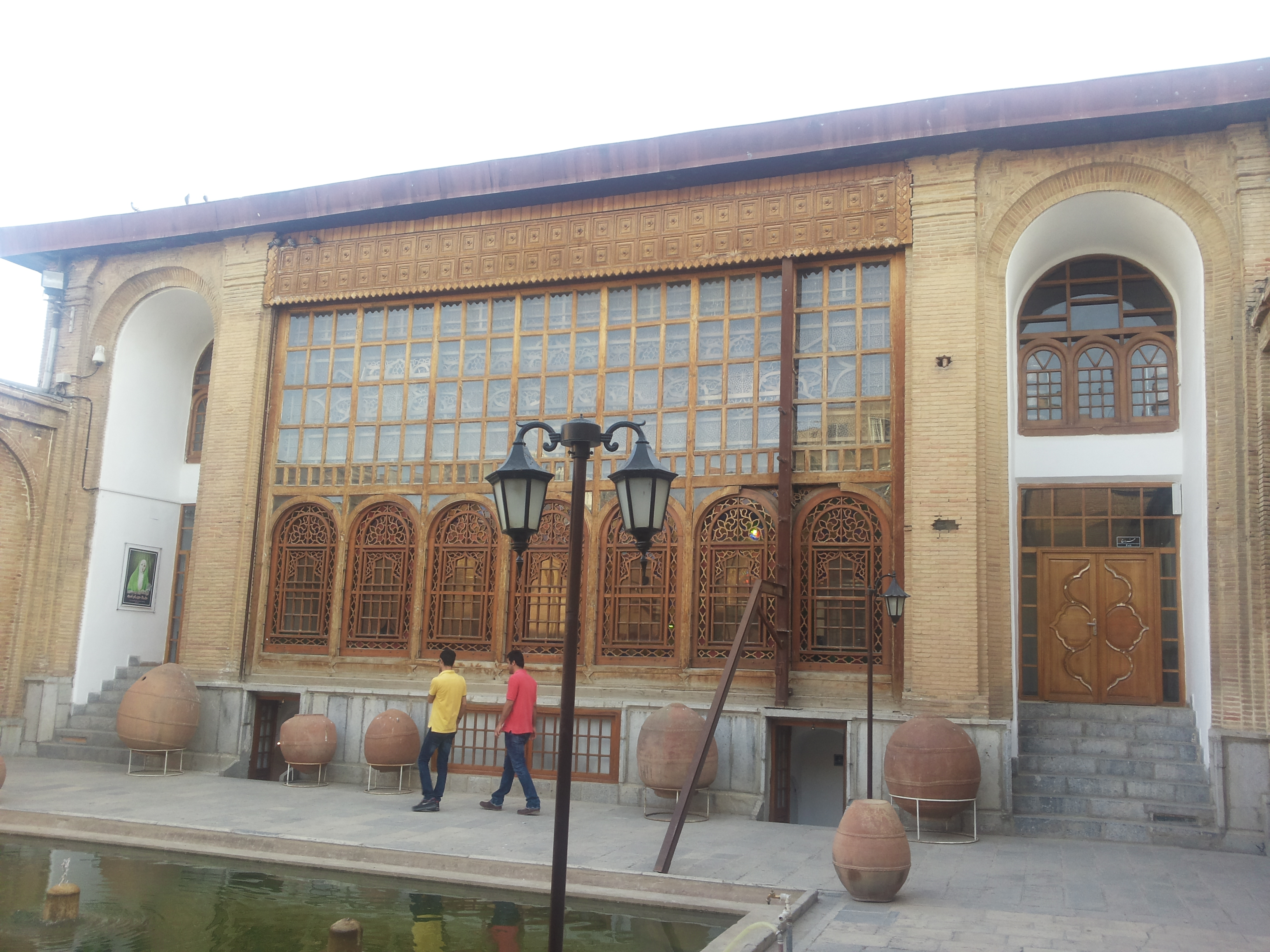 Salar Saeed building, museum of Sanandaj, Outer view